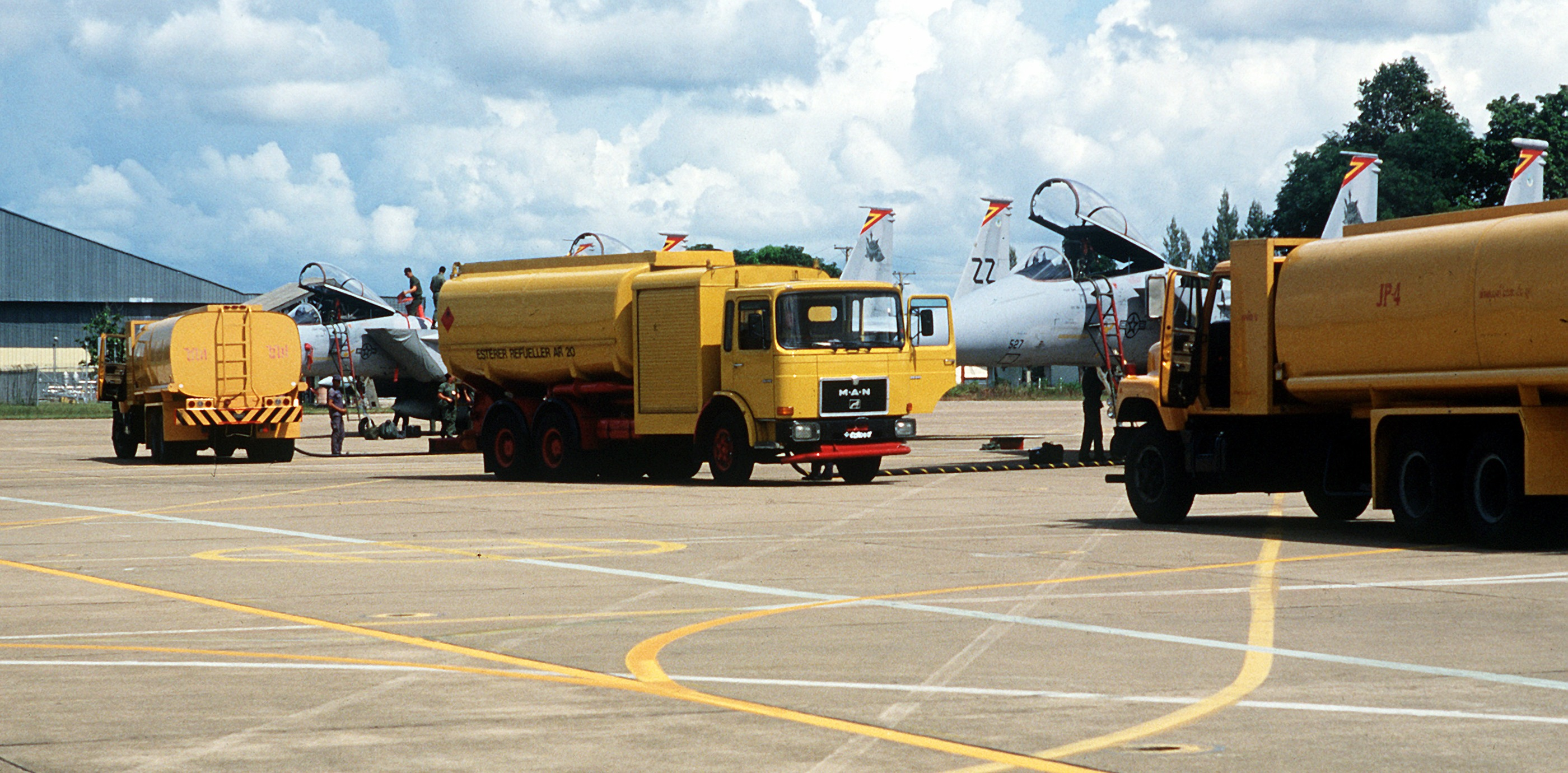 Royal Thai Air Force petroleum, oil and lubricant trucks refuel US F-15 Eagle aircraft after a mission. The U.S. and Thailand are participating in Commando West IX, a joint training exercise.